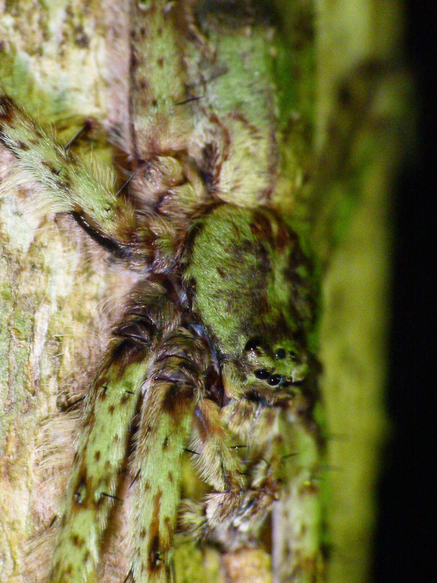 Moss like spider. Pandercetes sp. (near celatus per Fauna of British India) Wynaad India.